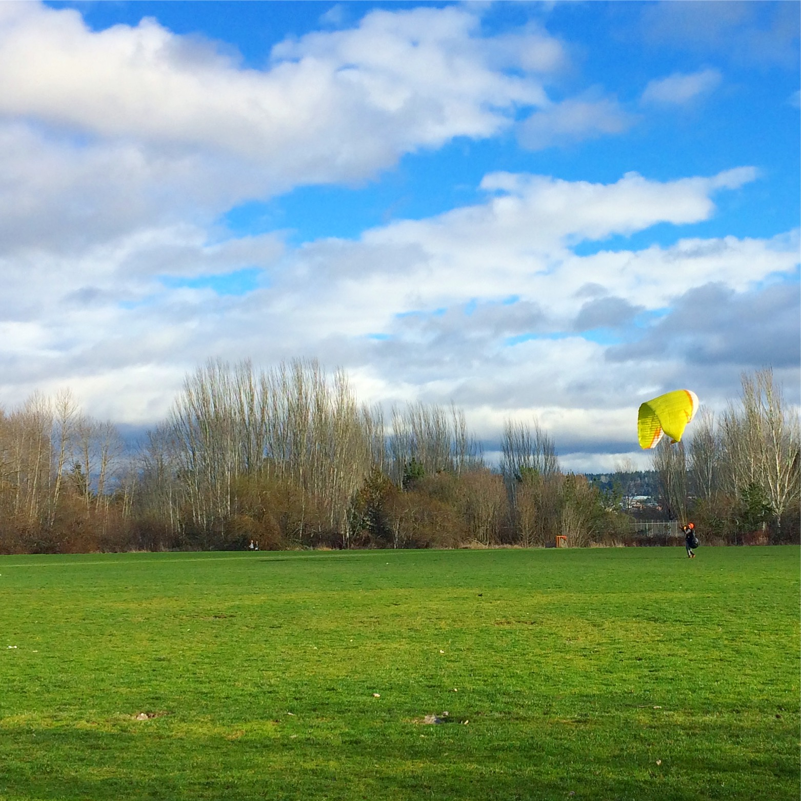 Parachutist practicing in one of the many open fields at Magnuson Park.